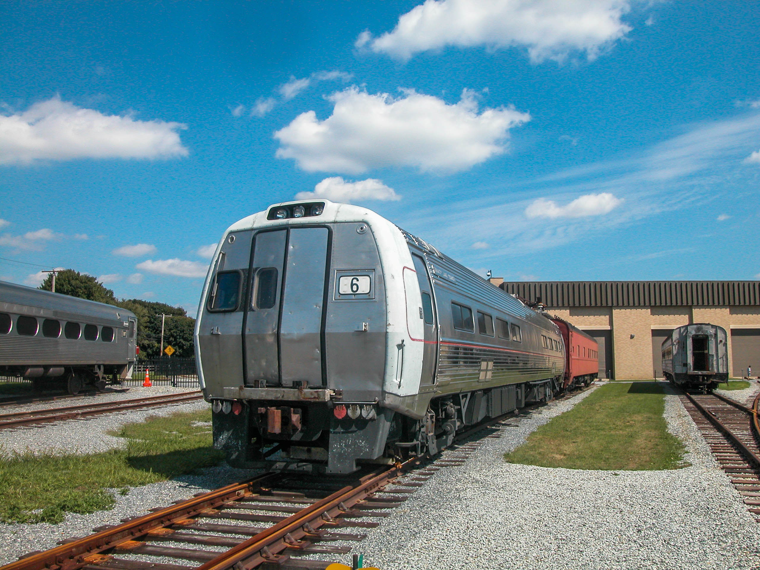 Amtrak Metroliner snack bar car #860 at the Railroad Museum of Pennsylvania in 2006